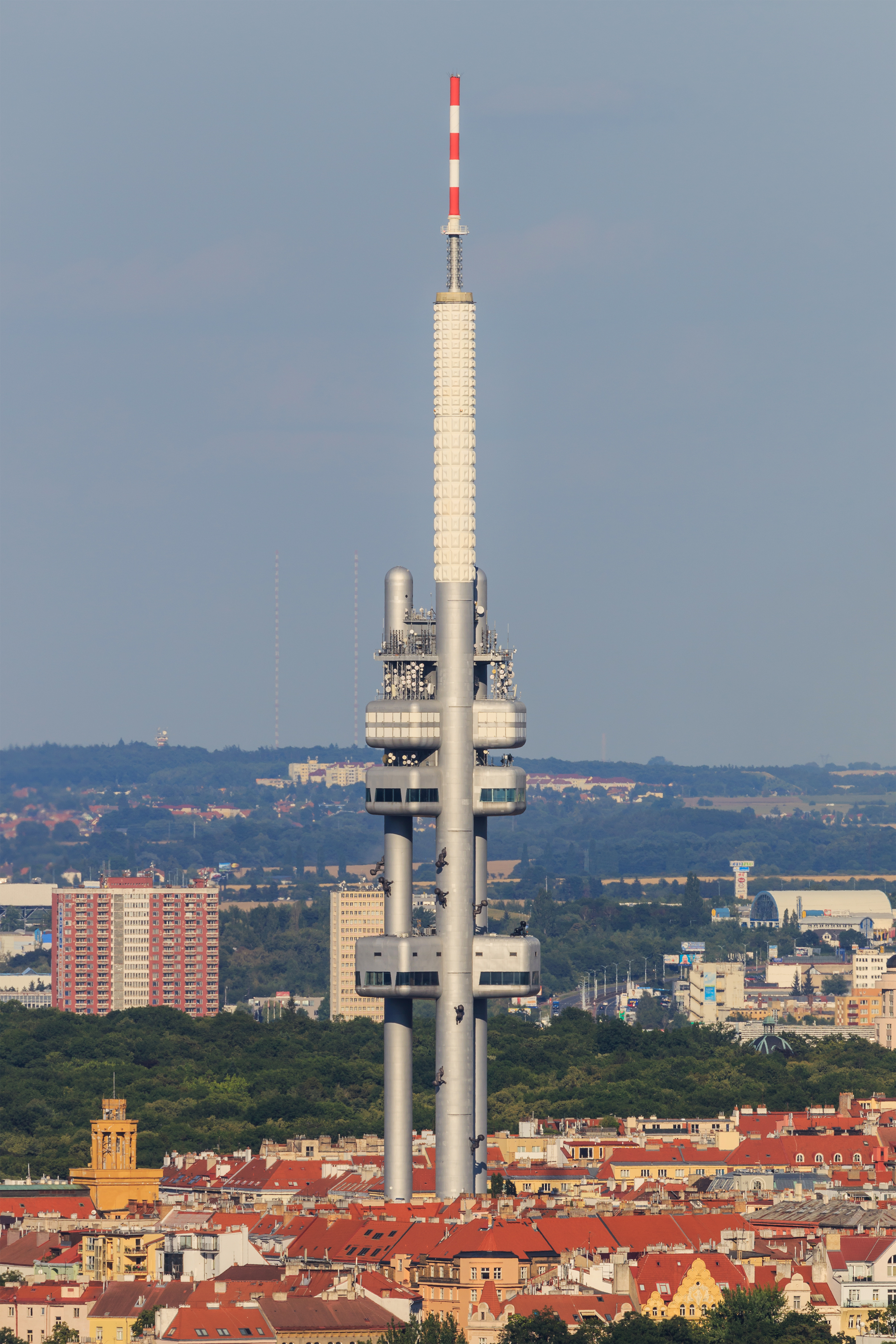 View from Petřín Lookout Tower in Prague (Czech Republic) – Žižkov TV Tower